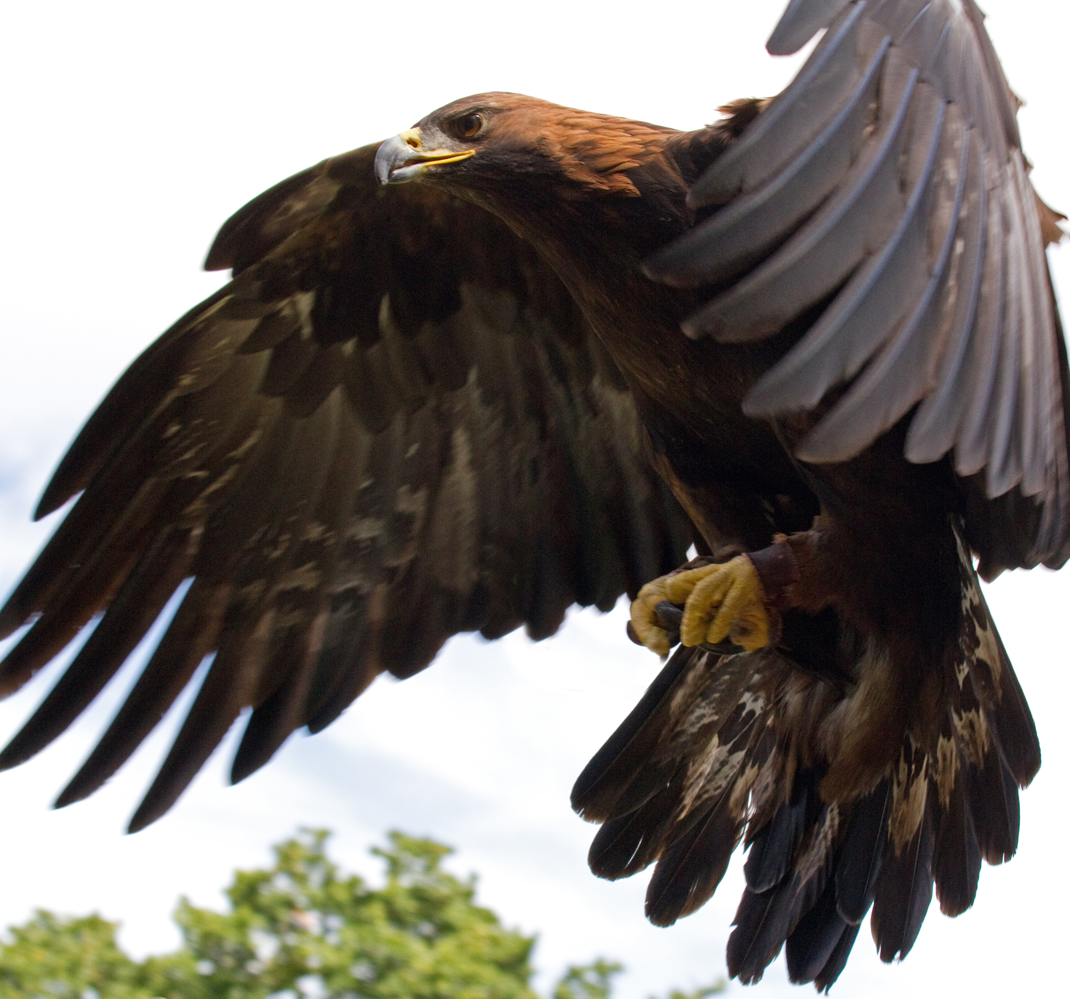 Captive Golden Eagle (Aquila chrysaetos) in flight in the United Kingdom